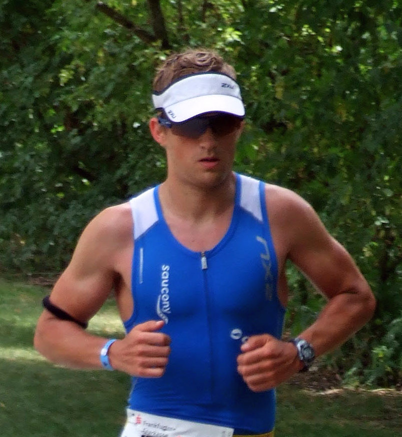 Nils Goerke, Ironman Germany, Frankfurt 2008